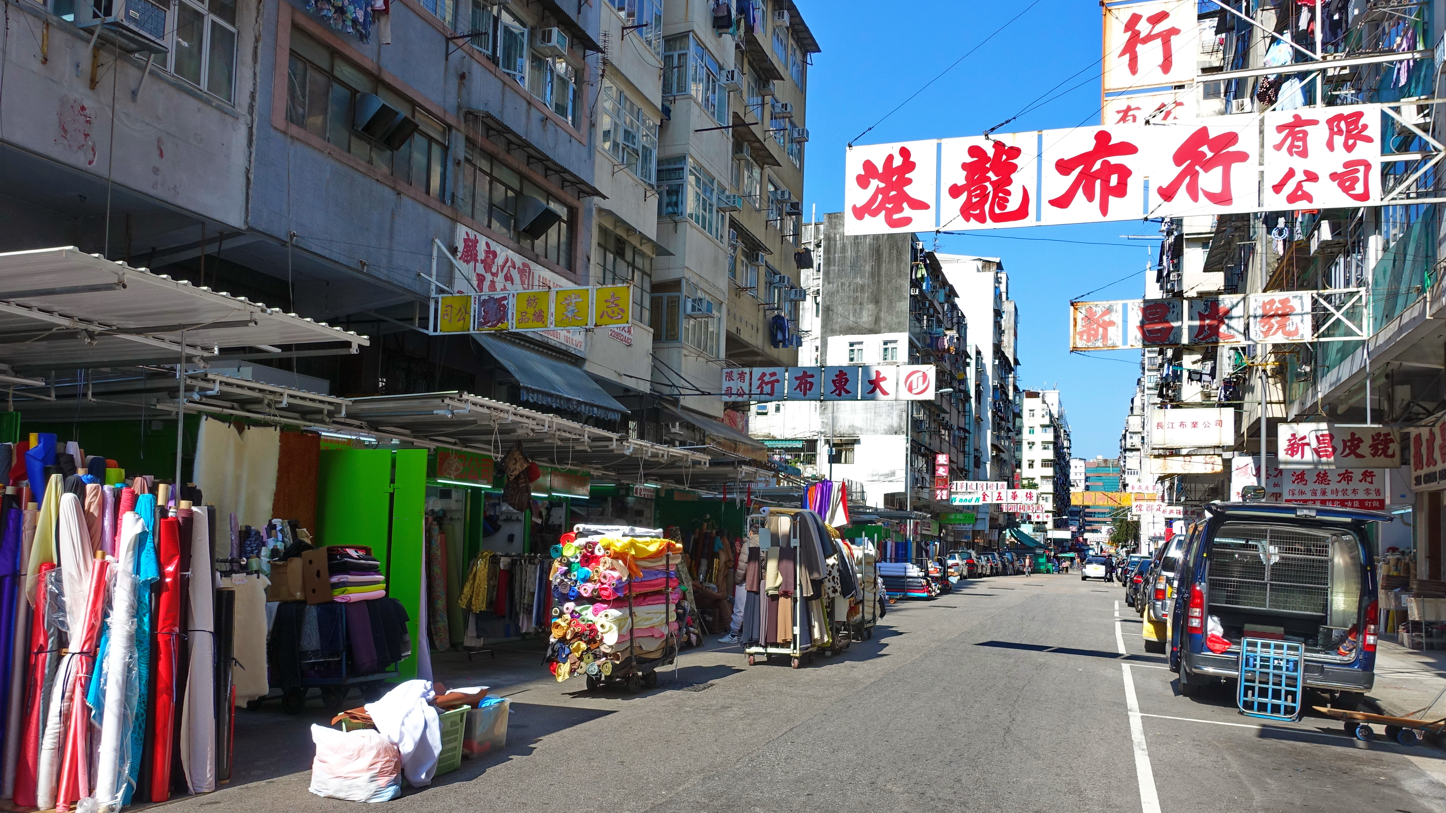 Ki Lung Street, looking west from Wong Chuk Street, Sham Shui Po, Kowloon, Hong Kong.